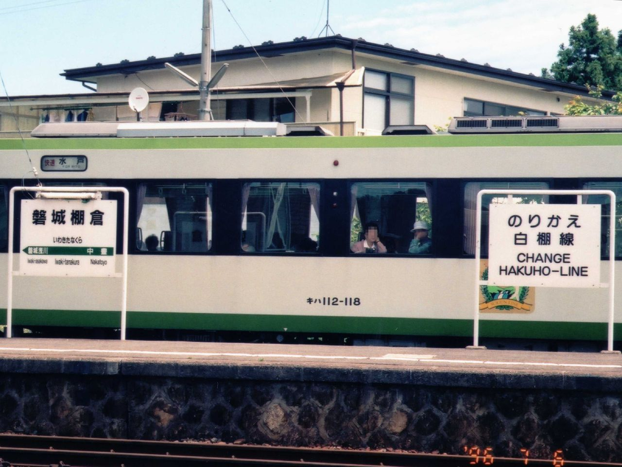 Information Boards at Iwaki-Takakura Sta.